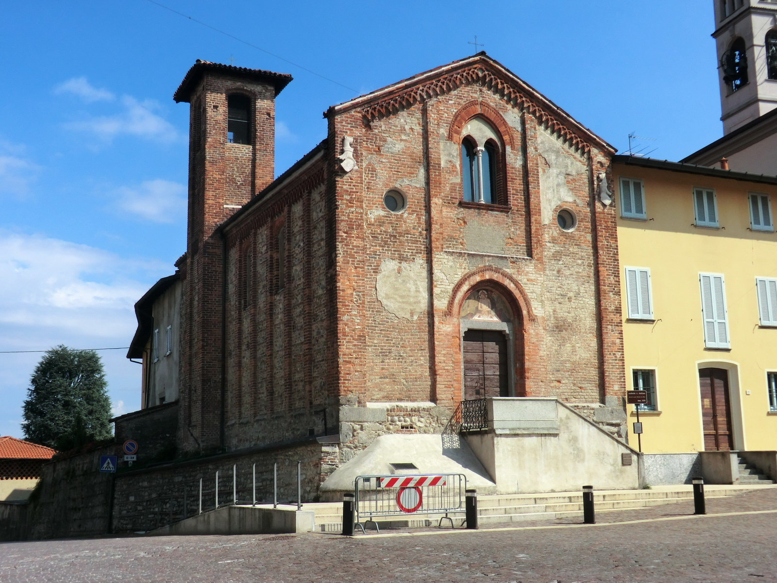 St Stephan Oratory, Lentate sul Seveso Native nameOratorio di Santo StefanoLocationLentate sul Seveso, Lombardy, ItalyCoordinates45° 40′ 42.45″ N, 9° 07′ 19.65″ E Established1369Web page control : Q3884882 VIAF: 132917749 LCCN: no2008167329 GND: 7615023-9 WorldCat institution QS:P195,Q3884882